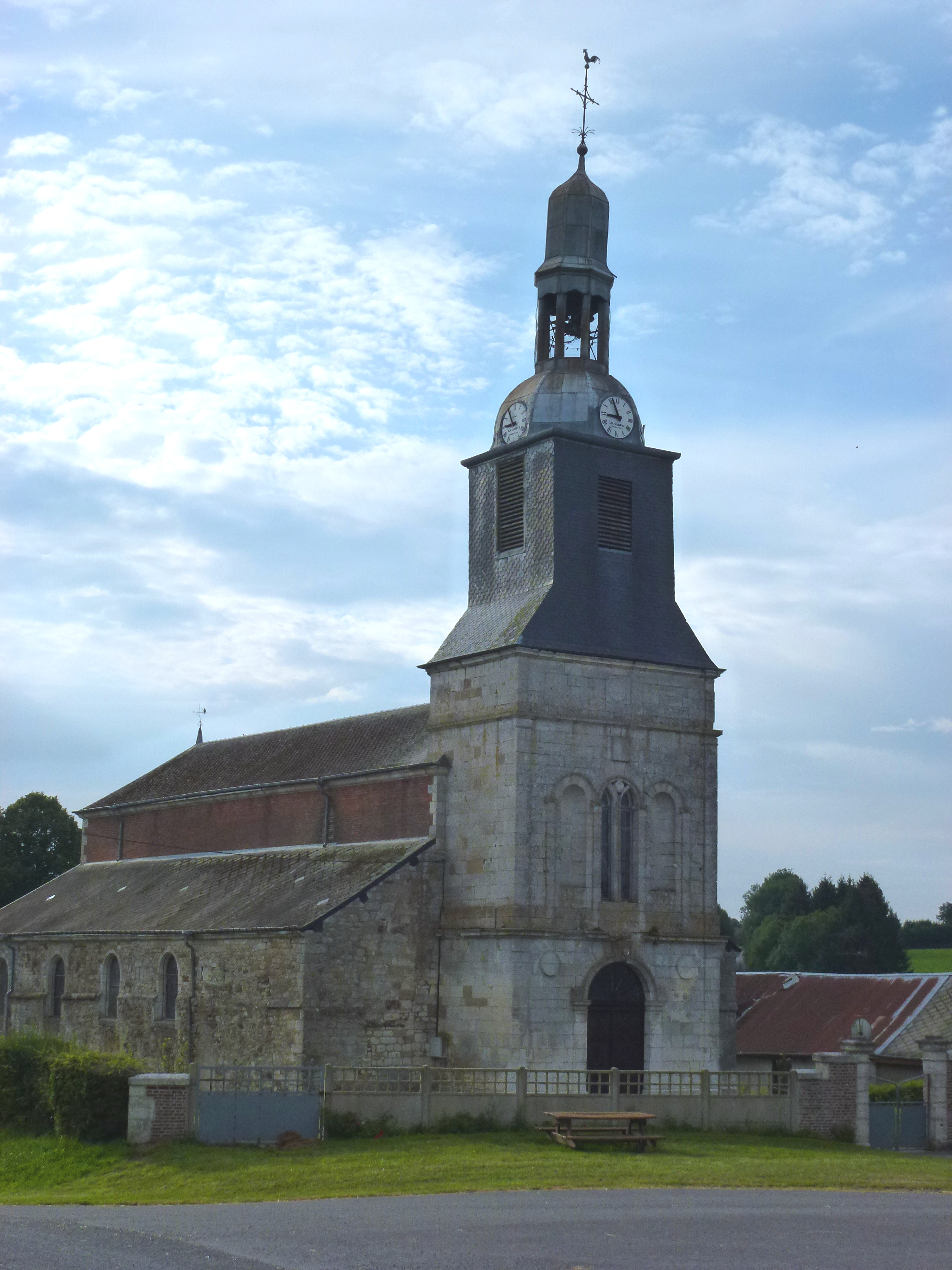 Marlemont (Ardennes) église